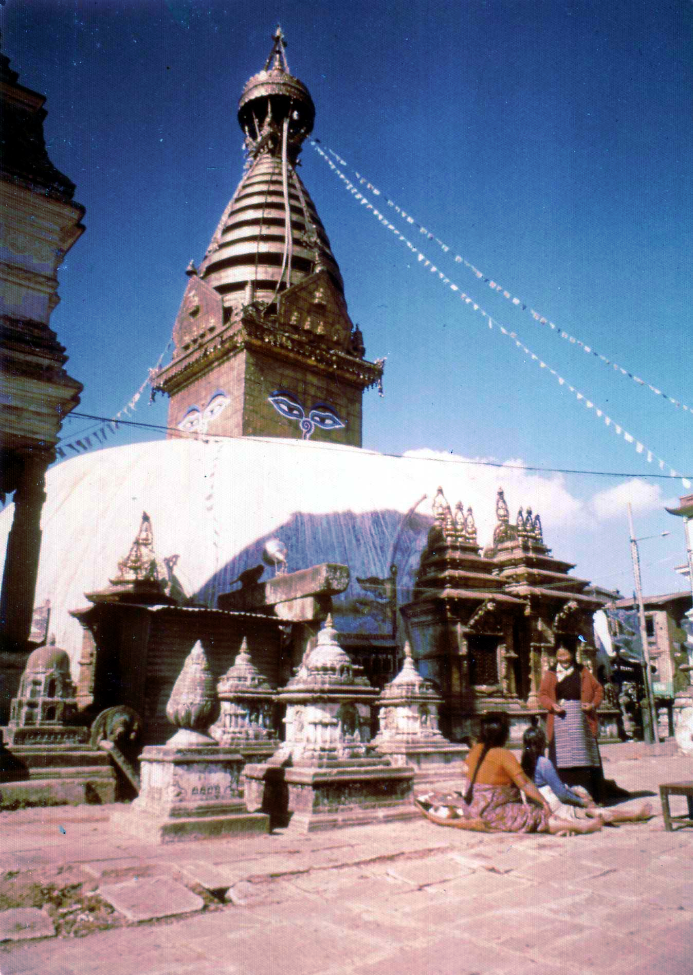 I took this photo myself in 1973. John Hill 21:30, 5 September 2007 (UTC)